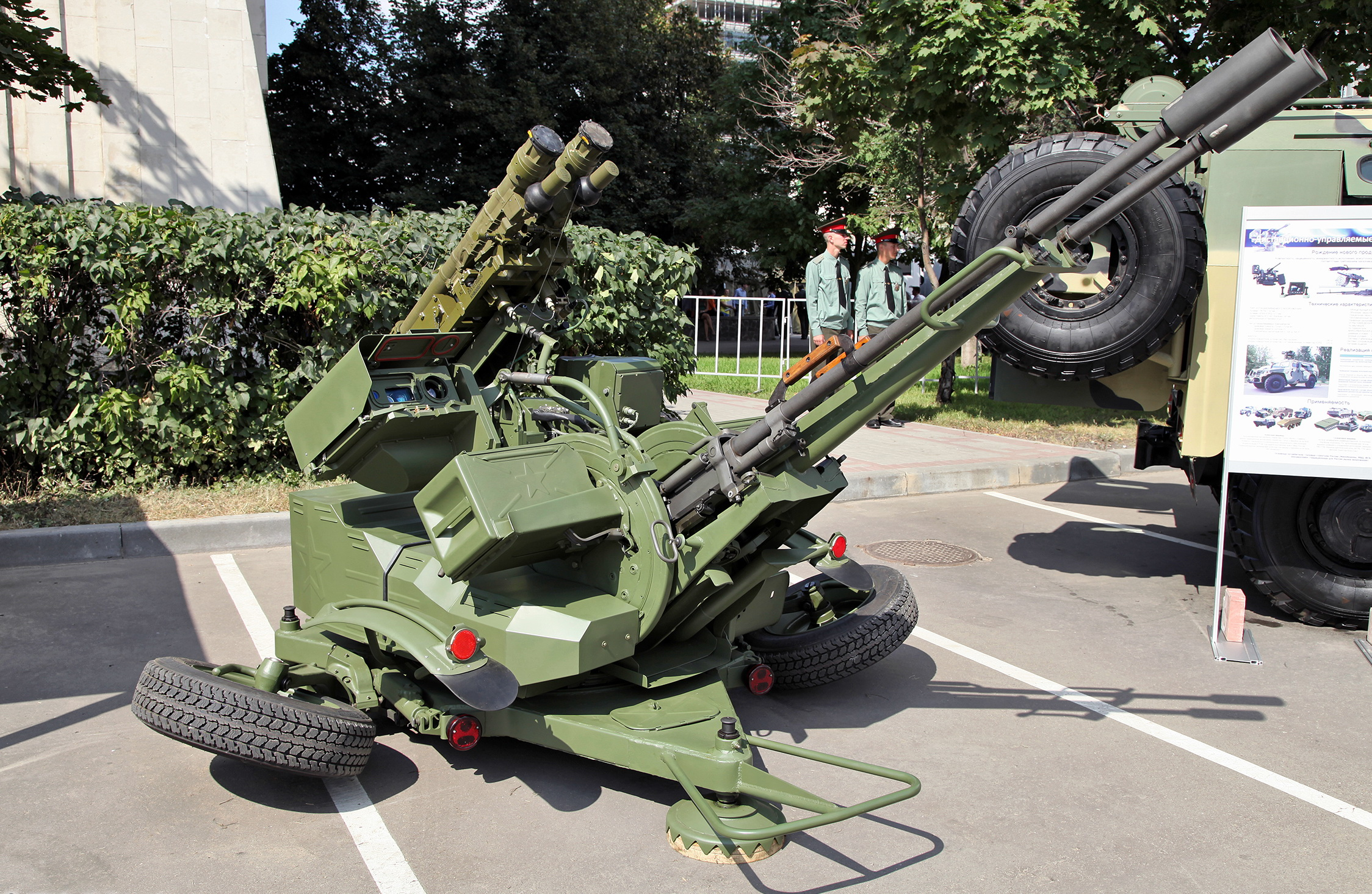 Zu-23/30 M1-3.